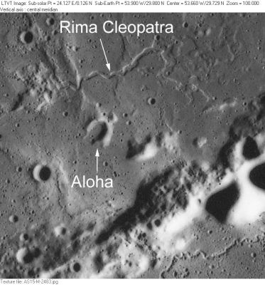 Apollo 15 image of crater Aloha and Rima Cleopatra